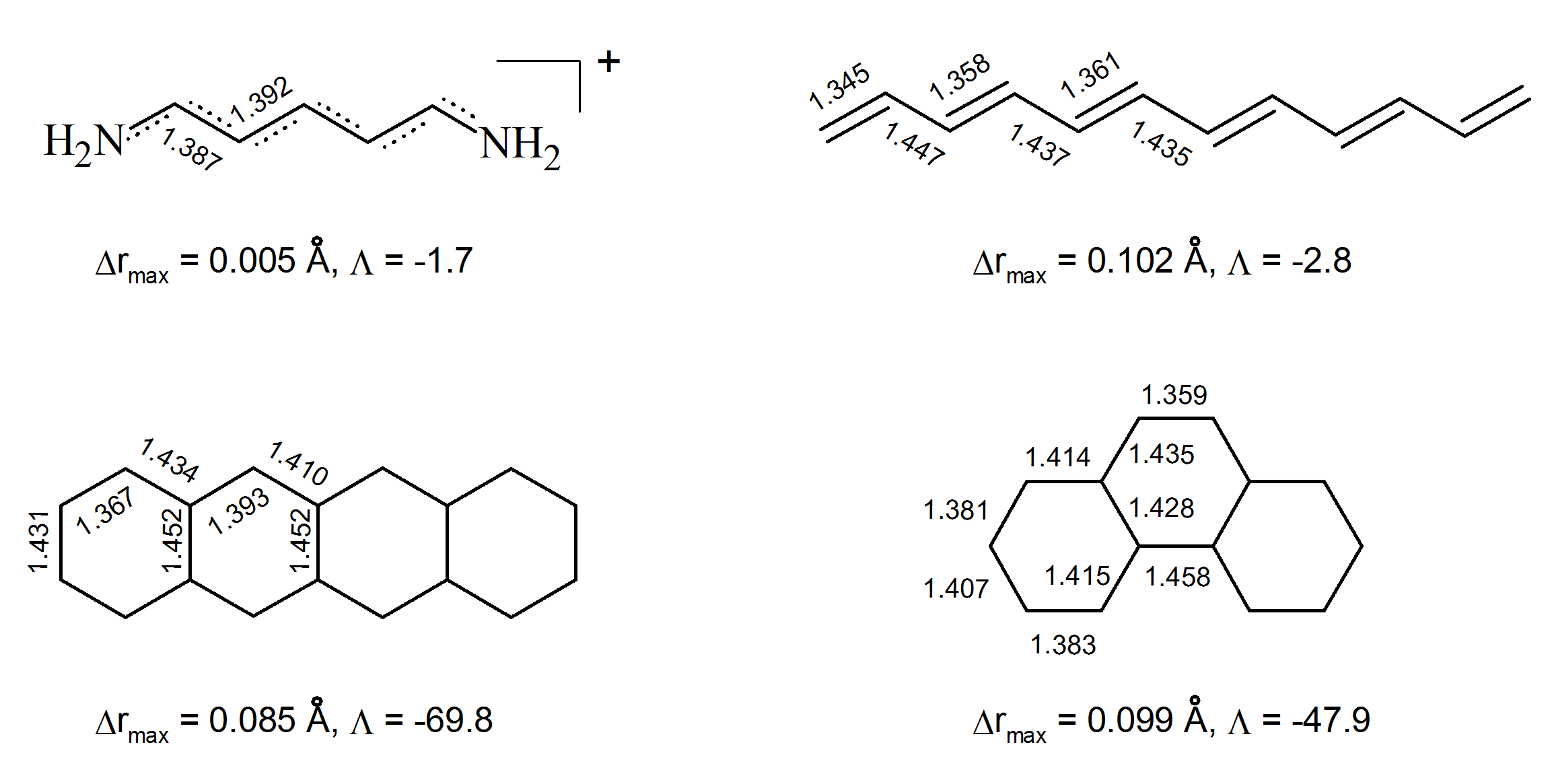 Bond lengths in tetracene and phenanthrene compared to linear conjugated compounds